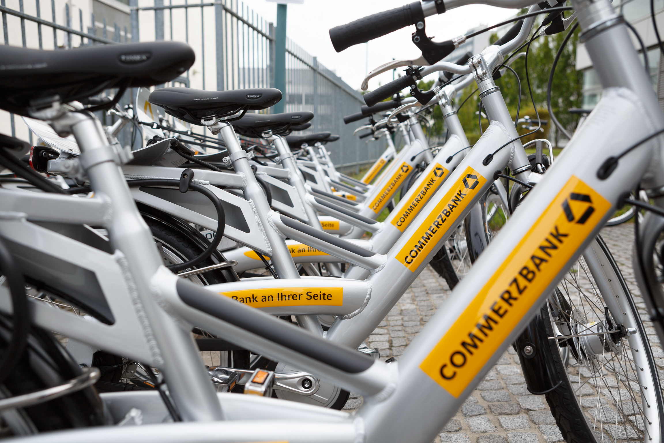 Corporate bikes of the Commerzbank